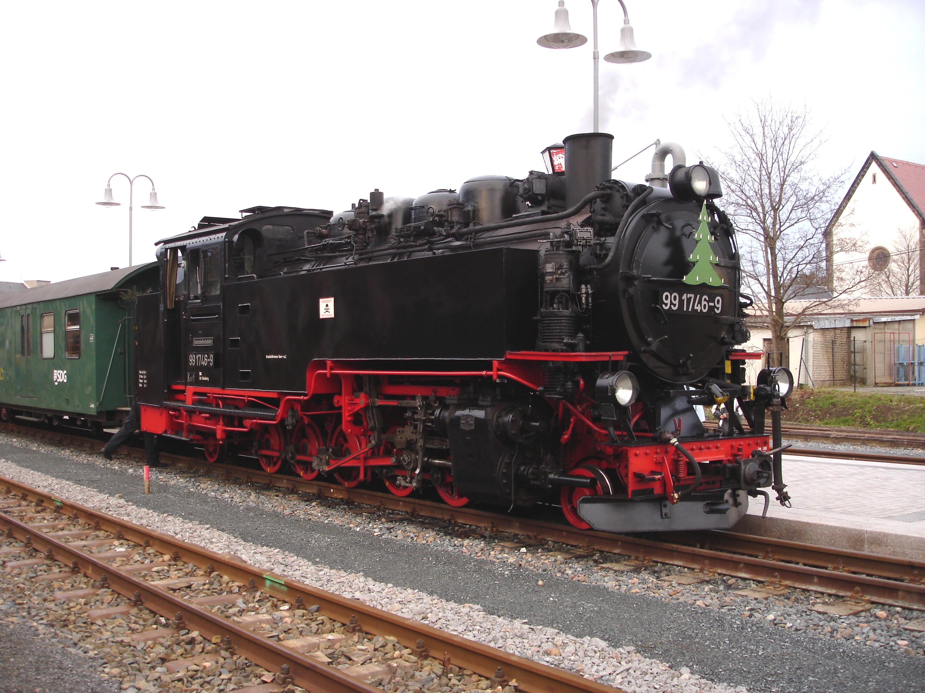 steam locomotive of Weißeritztalbahn in Dippoldiswalde, Saxony, Germany